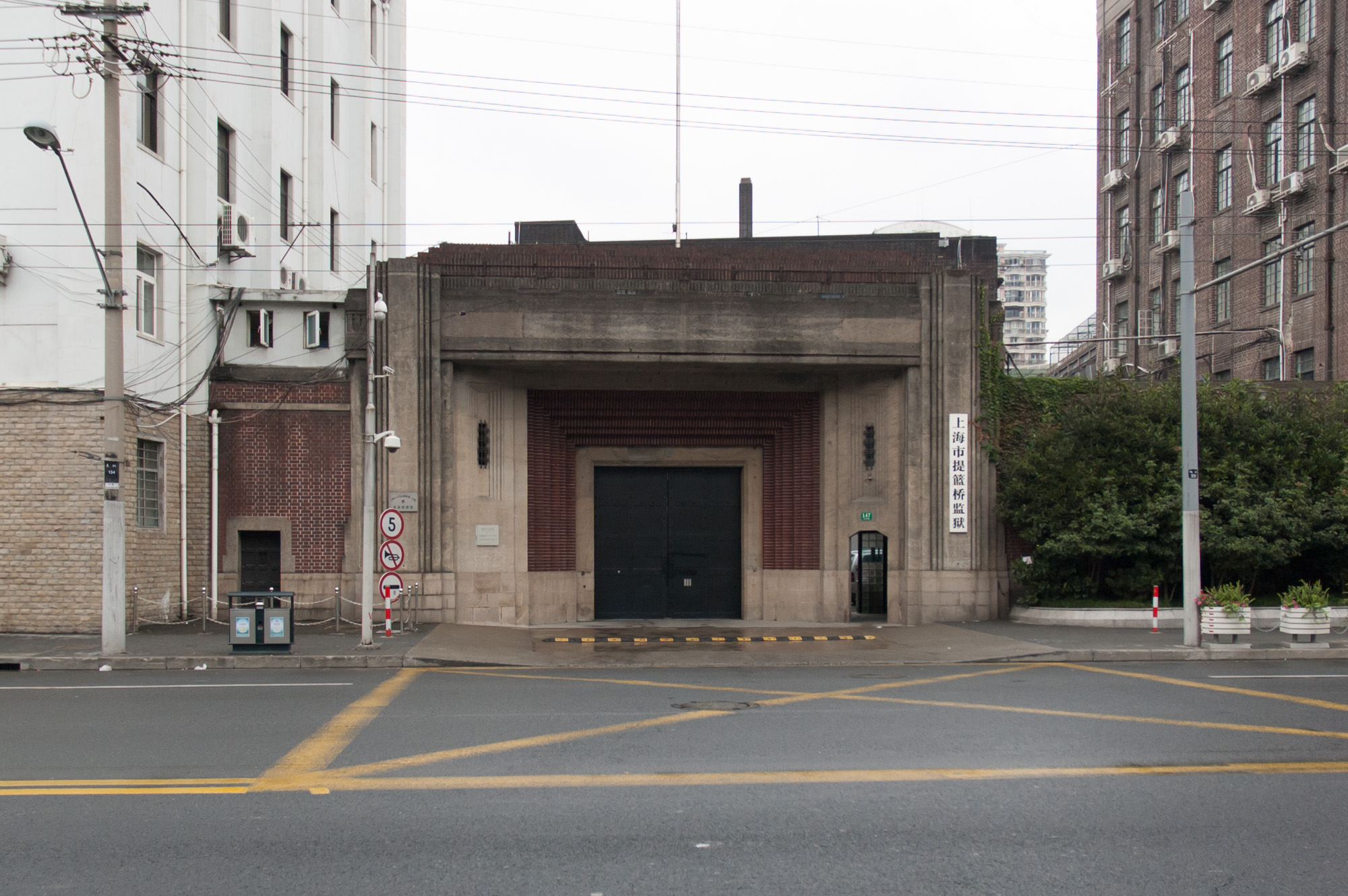 Gate of Shanghai Tilanqiao Prison, formerly Ward Road Gaol.